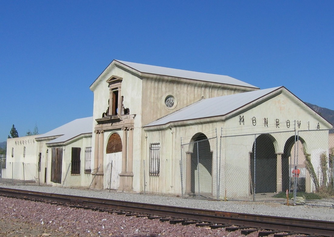 Former Santa Fe station built in 1926. Abandoned derelict. Quietly awaiting the Metro Gold Line light rail extension someday.